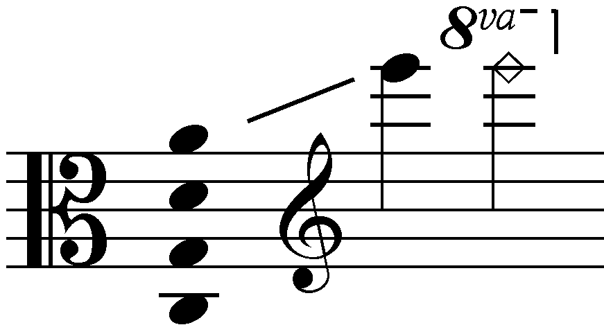 Range & tuning of a viola